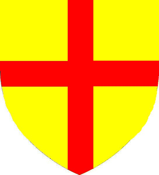 Coat of Arms of Roger Bigod